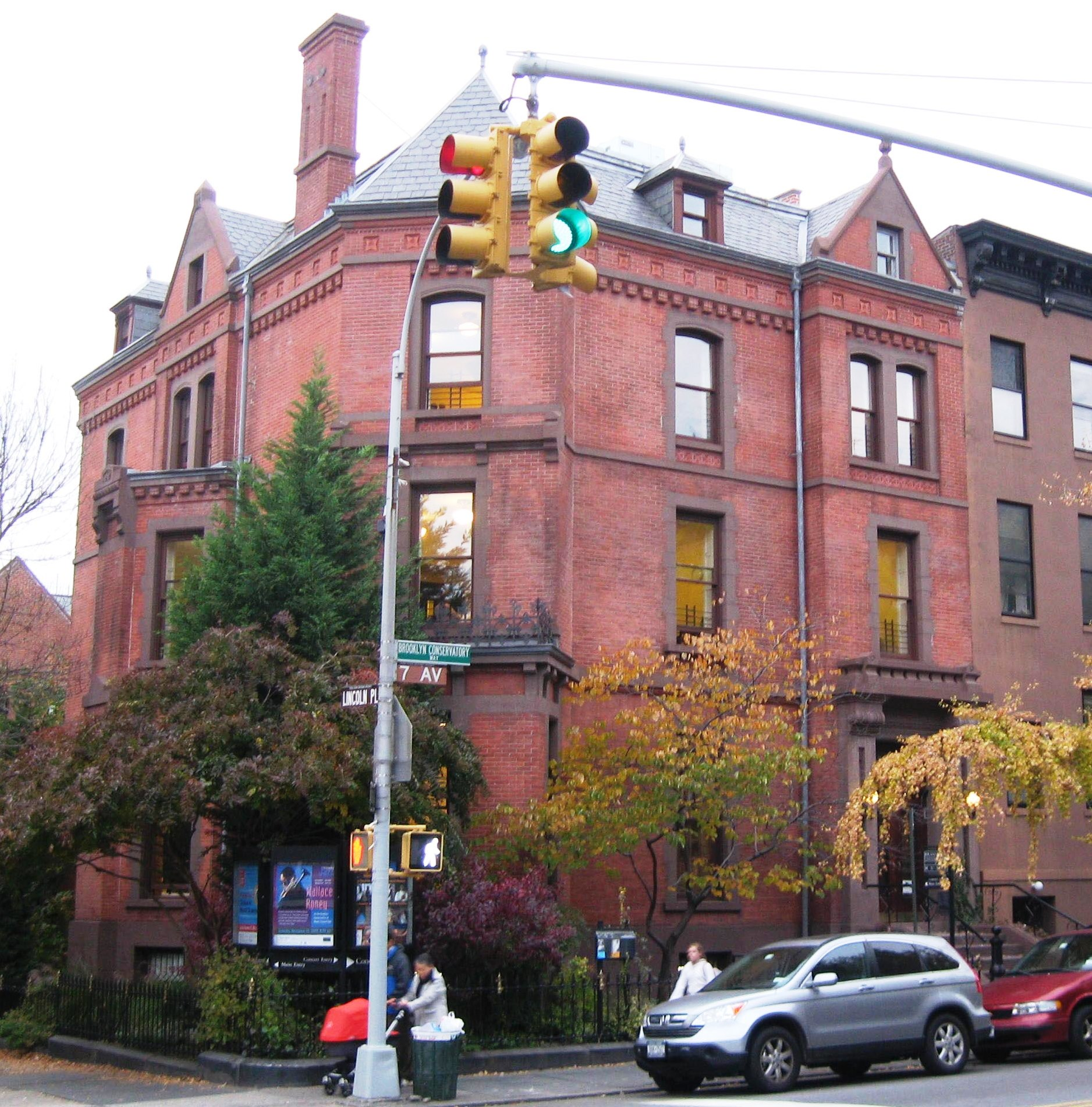 Looking north across 7th Ave and Lincoln Pl in Park Slope, Brooklyn at Brooklyn Conservatory of Music on a cloudy afternoon.